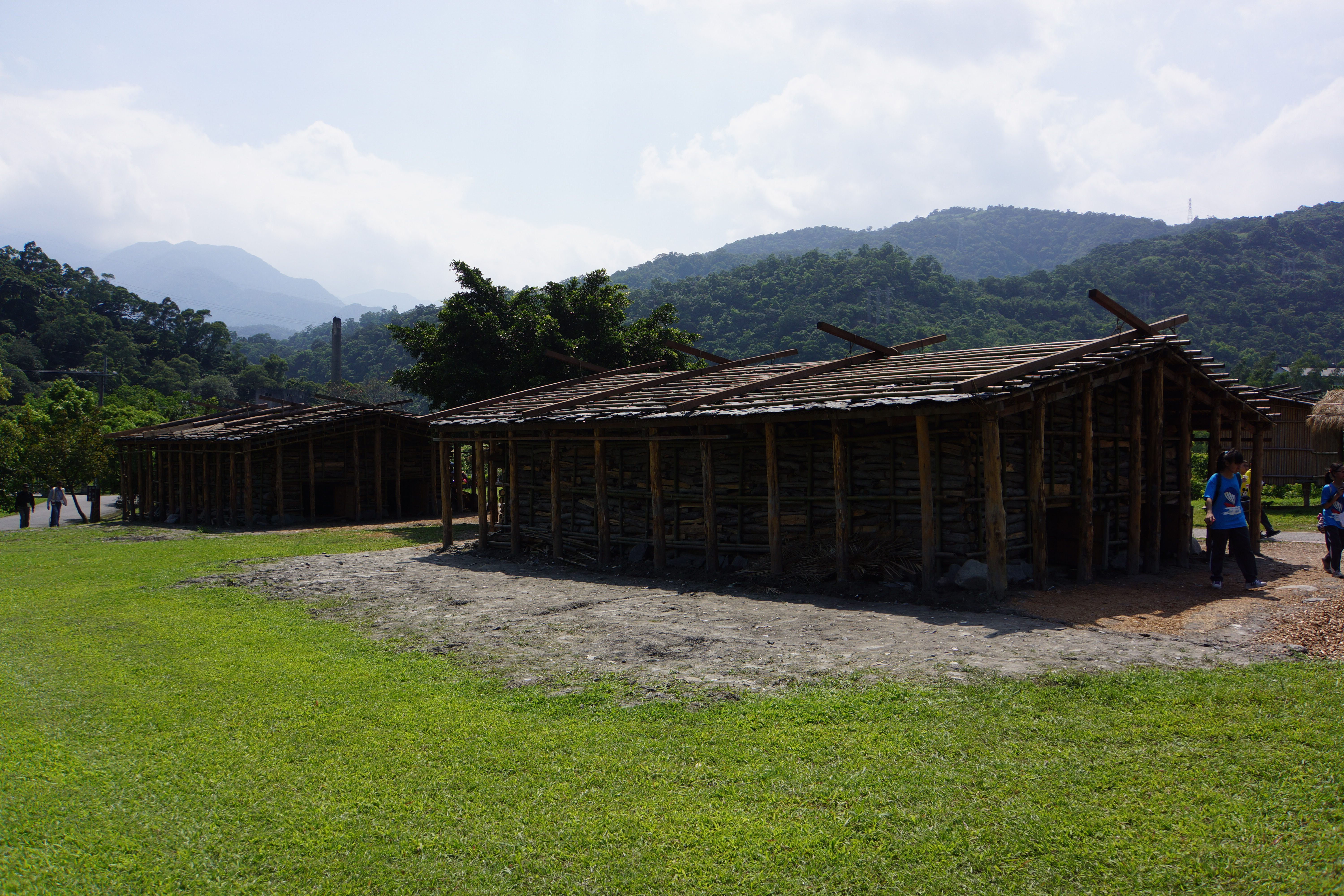 傳統泰雅家屋 Traditional Atayal Houses